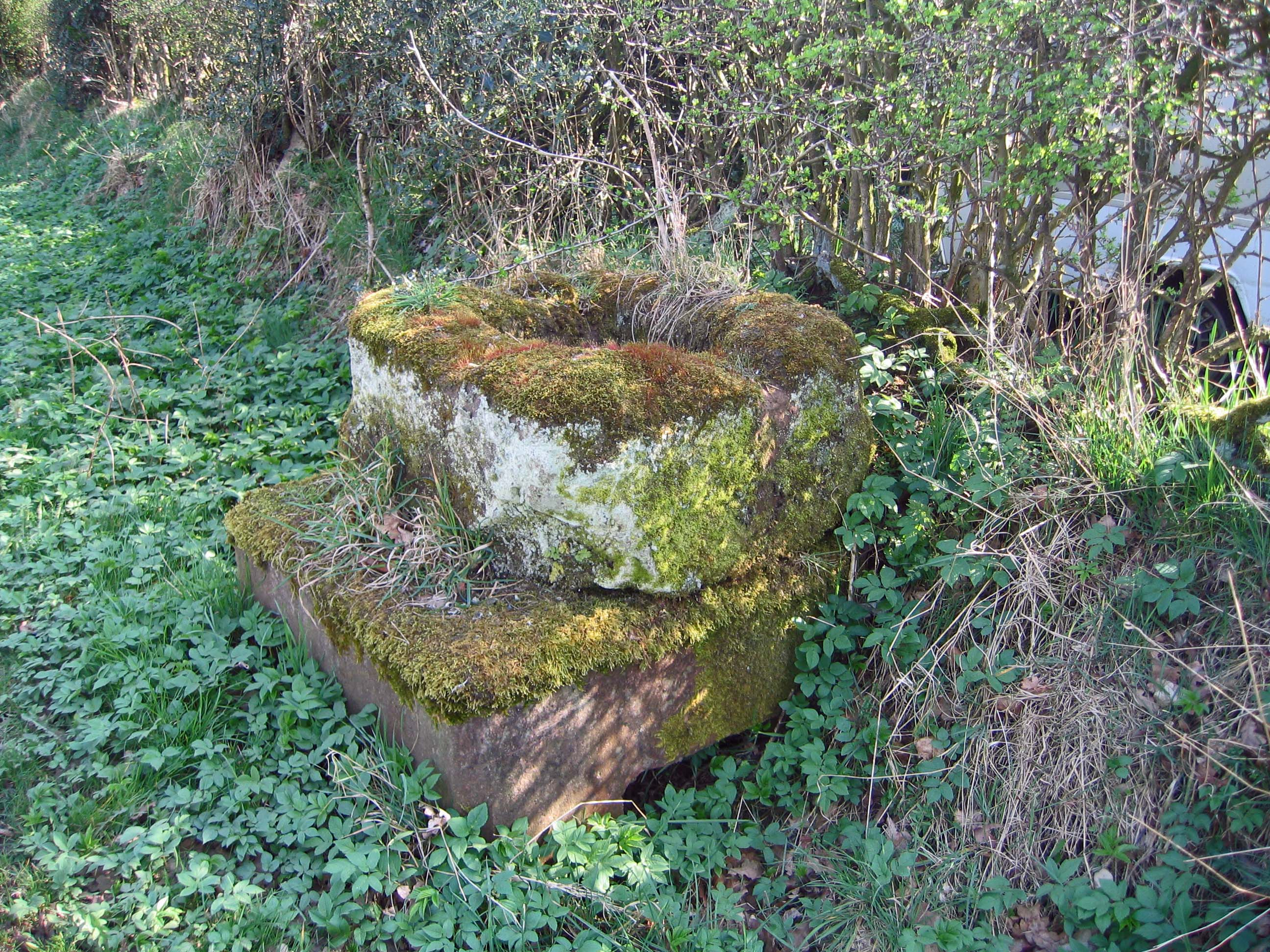 Photograph of a scheduled monument in Longstone Lane thought to have been a plague stone